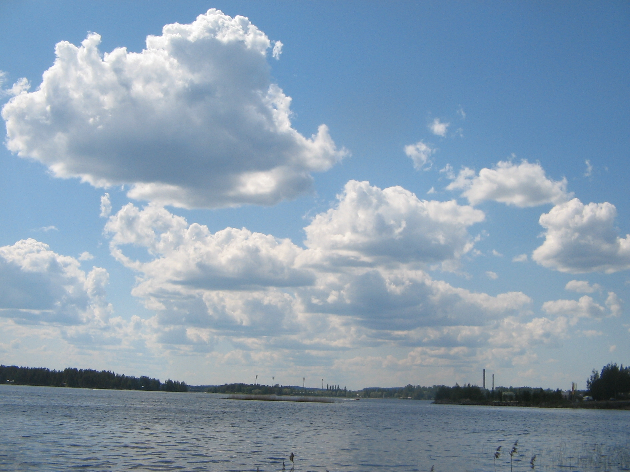 Meteorology/Cloud types/Cumulus mediocris clouds on summer sky.